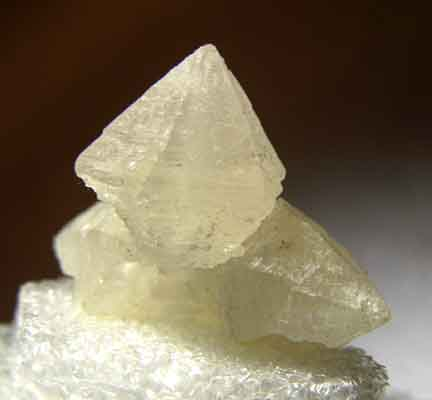 Witherite Locality: Minerva Mine, Hardin County, Illinois Size: thumbnail, 2.5 x 2 x 1 cm Witherite Killer cluster of a witherite xl perched on a doubly-terminated xl below it. Only point of contact is on the backside